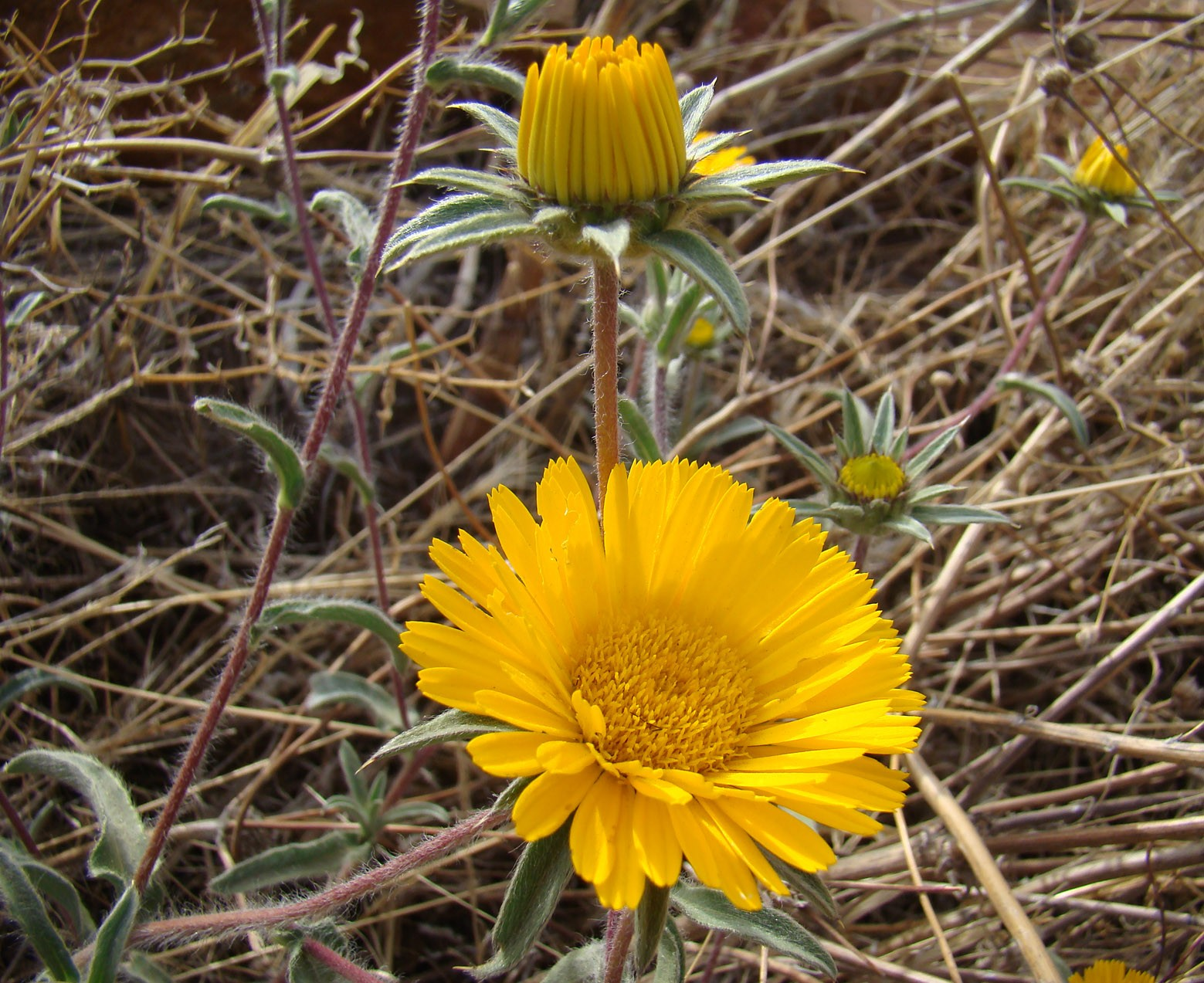 Pallenis cuspidata subspecies canescens observed in Morocco